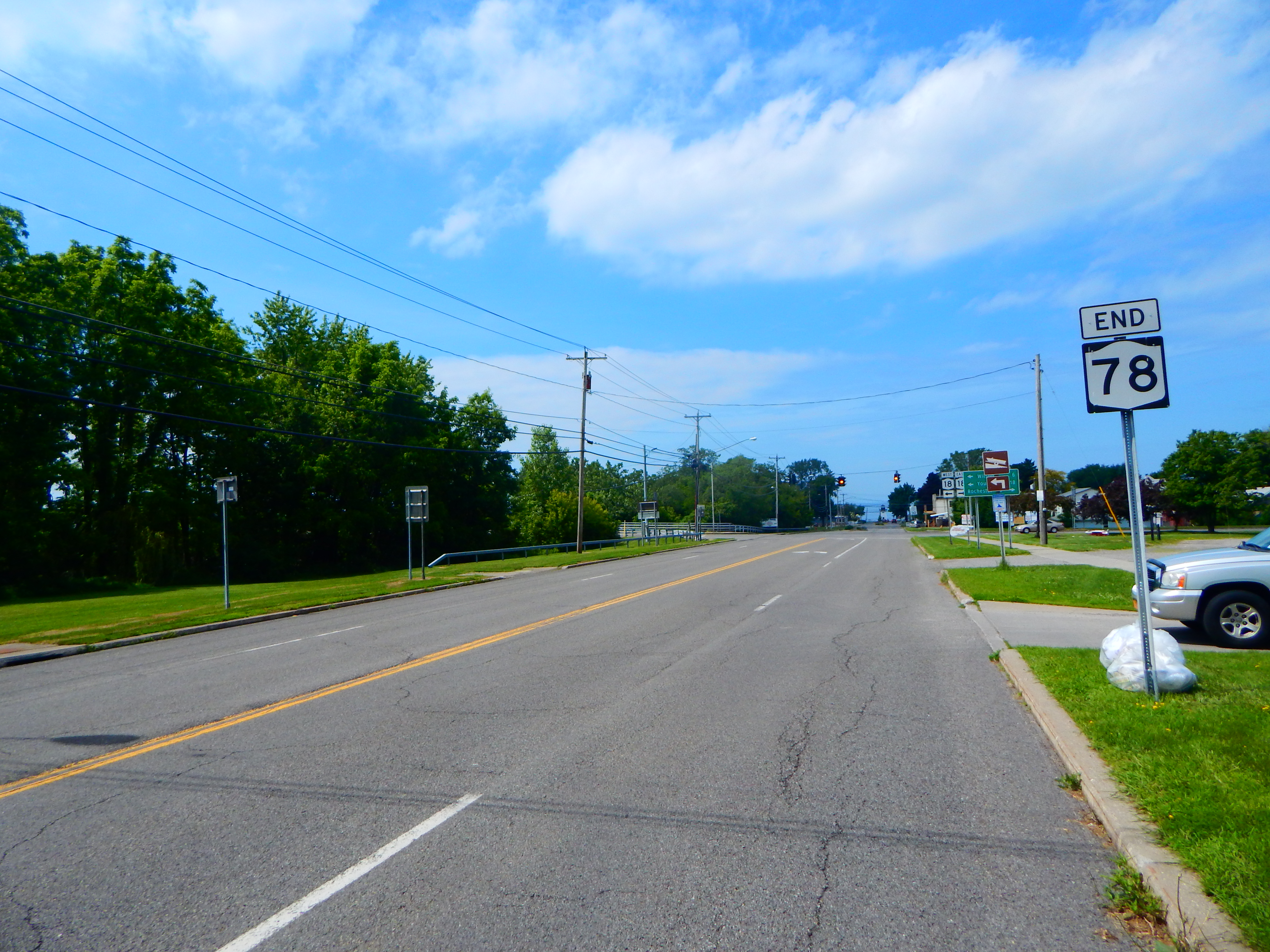 Route 78 northbound approaching Route 18 in Olcott, New York.